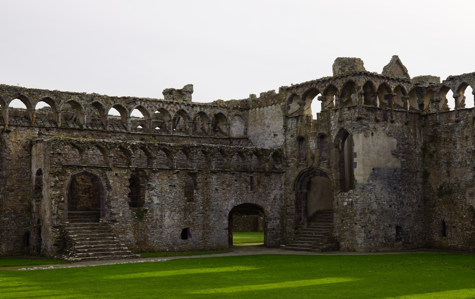 St. Davids Bishop's Palace, St. Davids, Wales, United Kingdom. East range and south range with entrances towards Bishop's Hall and Great Hall.